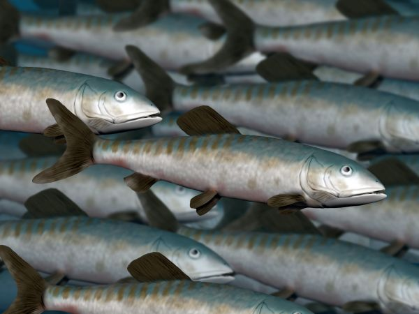 Leptolepis